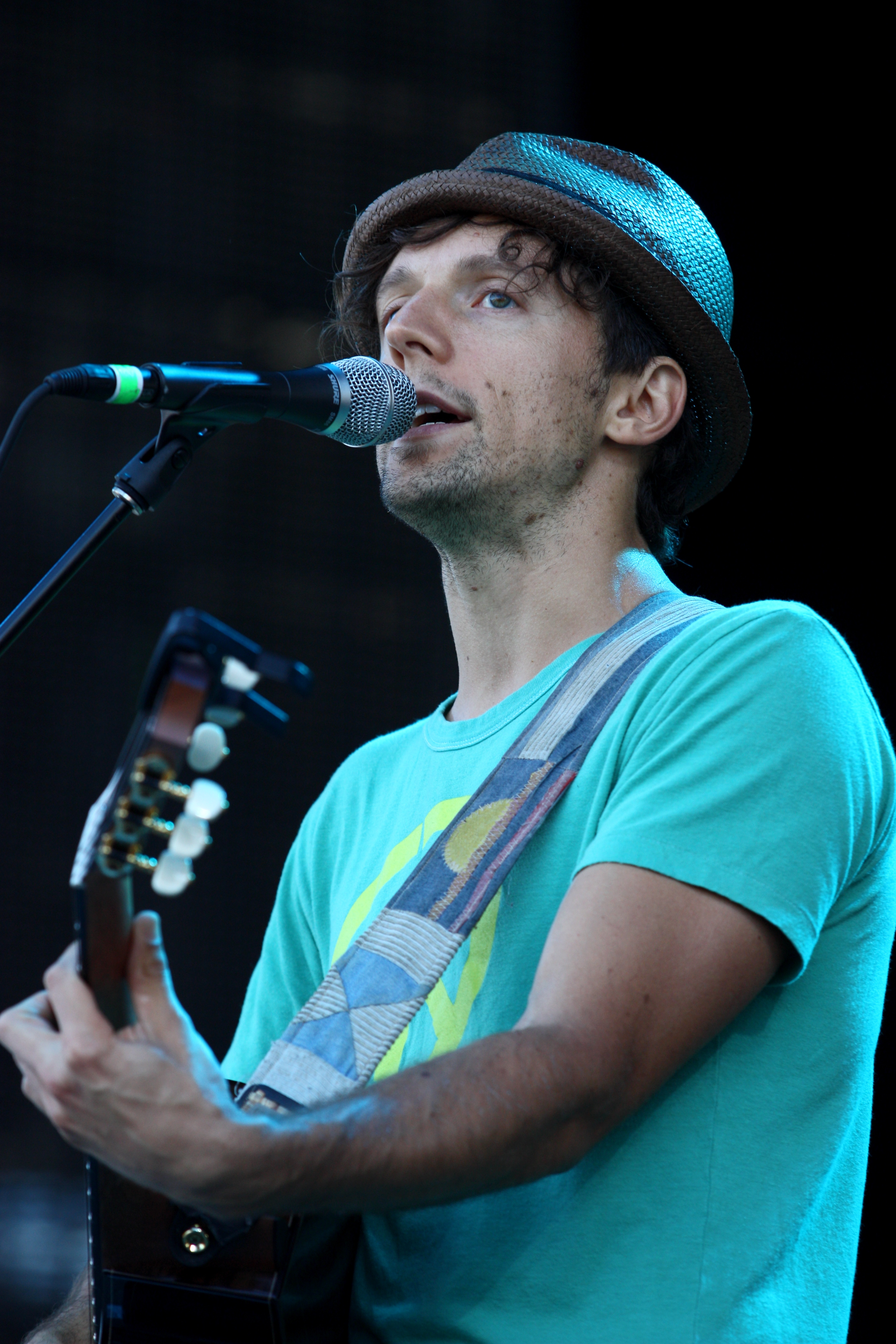 Jason Mraz at the Outside Lands Music and Arts Festival 2009